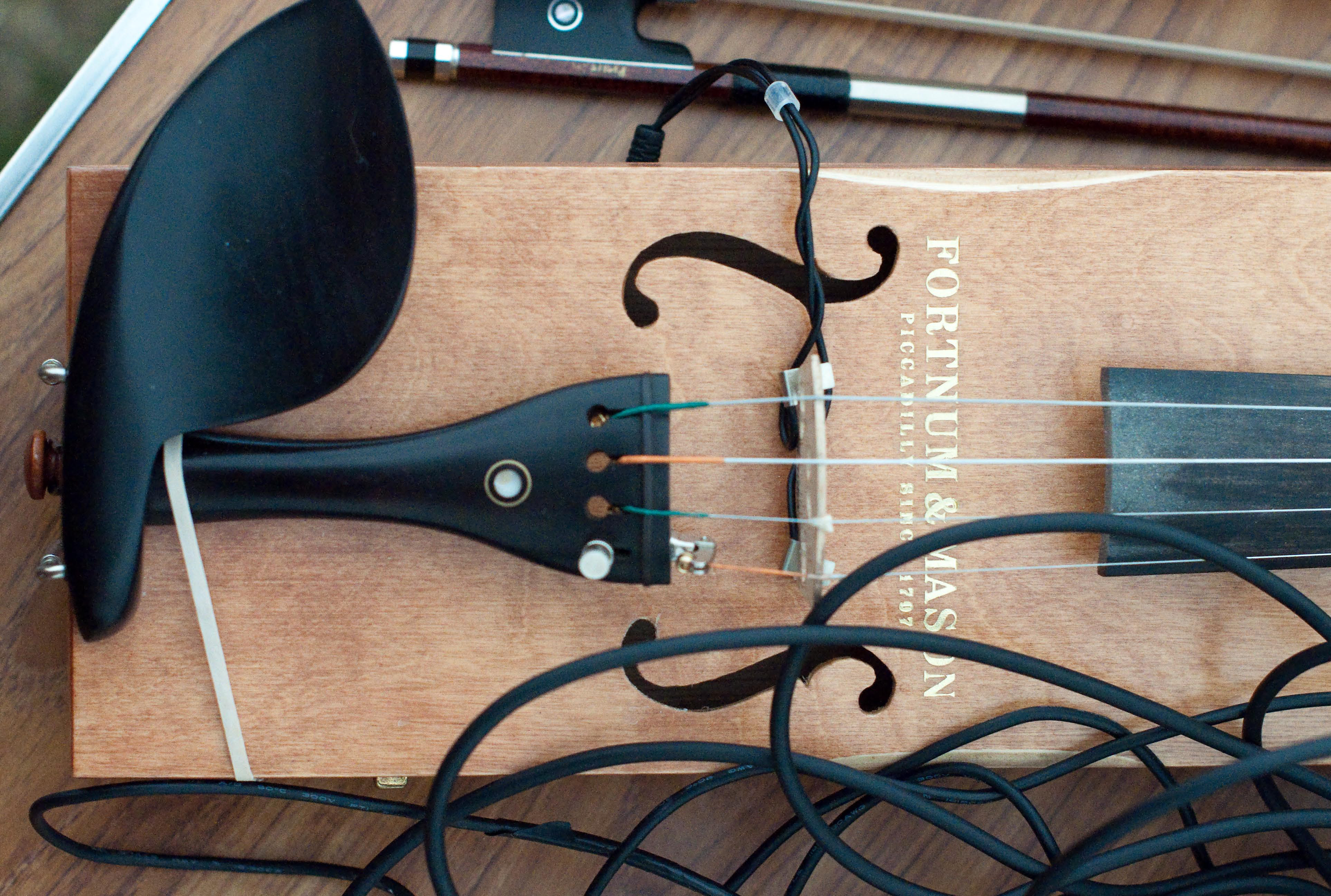 A superior modern fiddle seen at the 2013 annual Elstead UK Cigar box festival